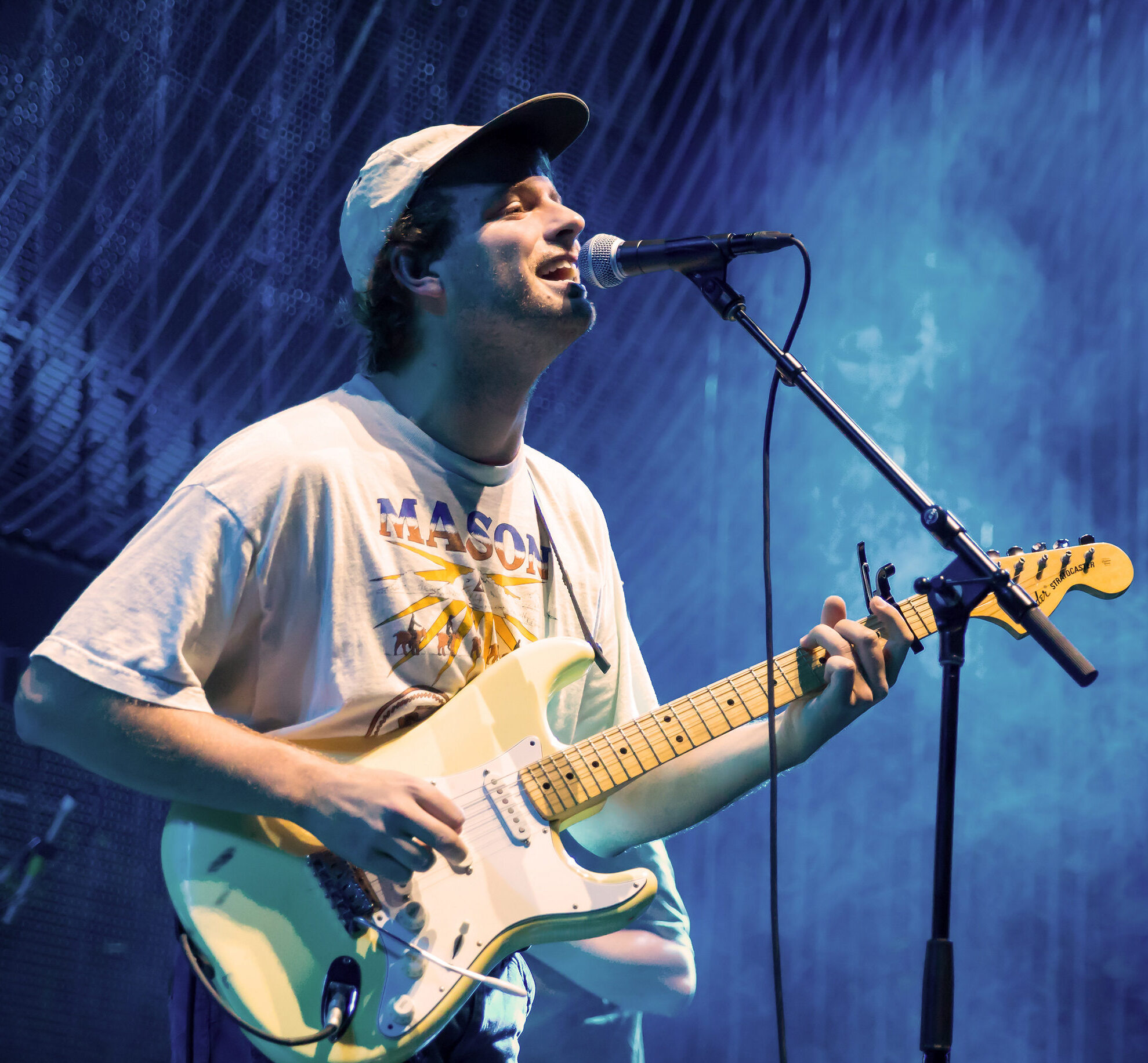 Mac DeMarco performing at ACL Live in Austin, Texas on October 1, 2017.